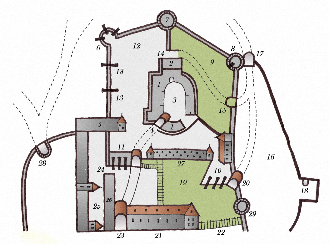 City of Siegen (Westphalia, Germany): Map of the Upper Castle (Oberes Schloss) approximately in the year 1736. Modeled after a historic map from that year.